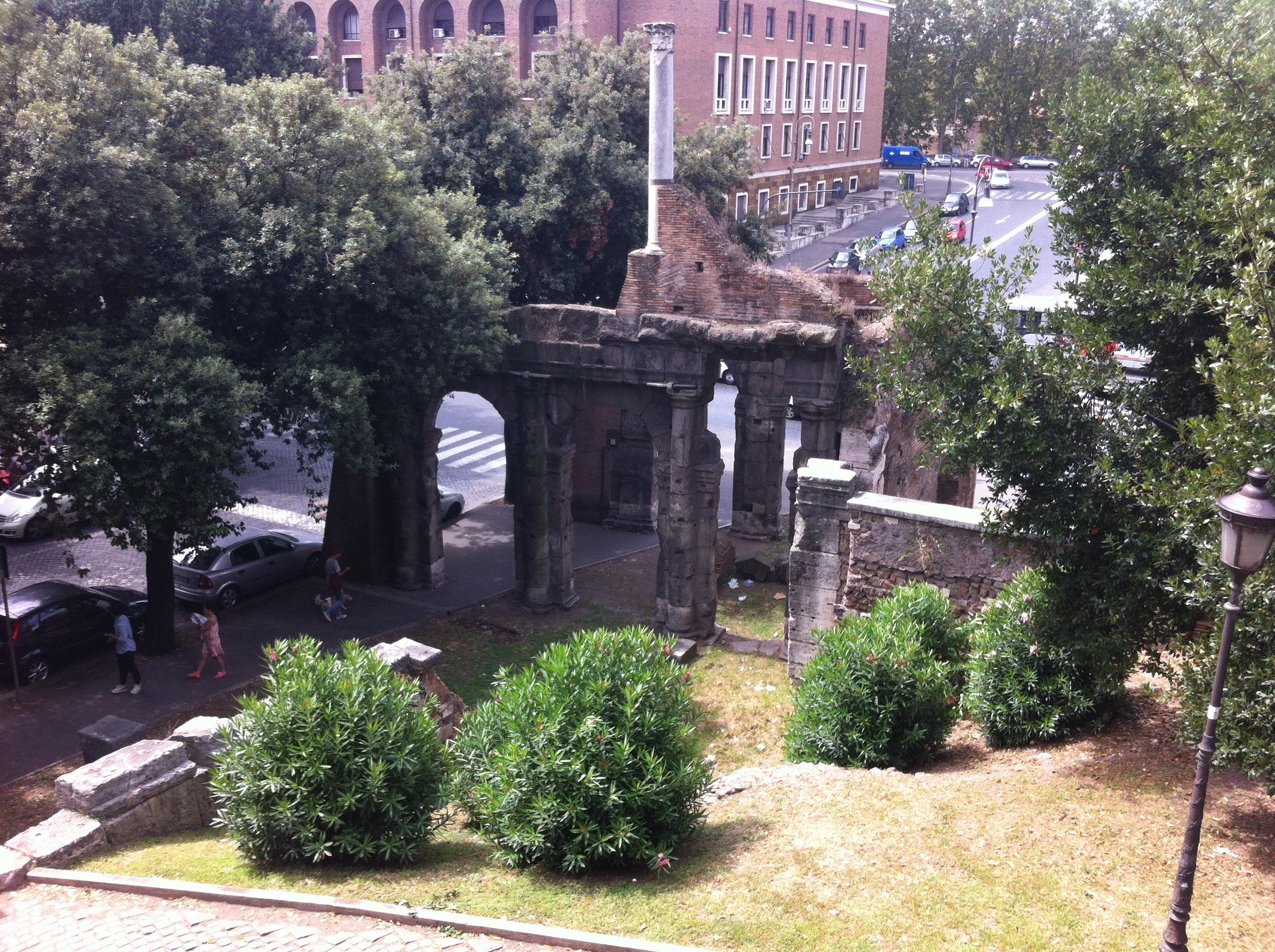 Ancient roman arches at via Petroselli, Rome